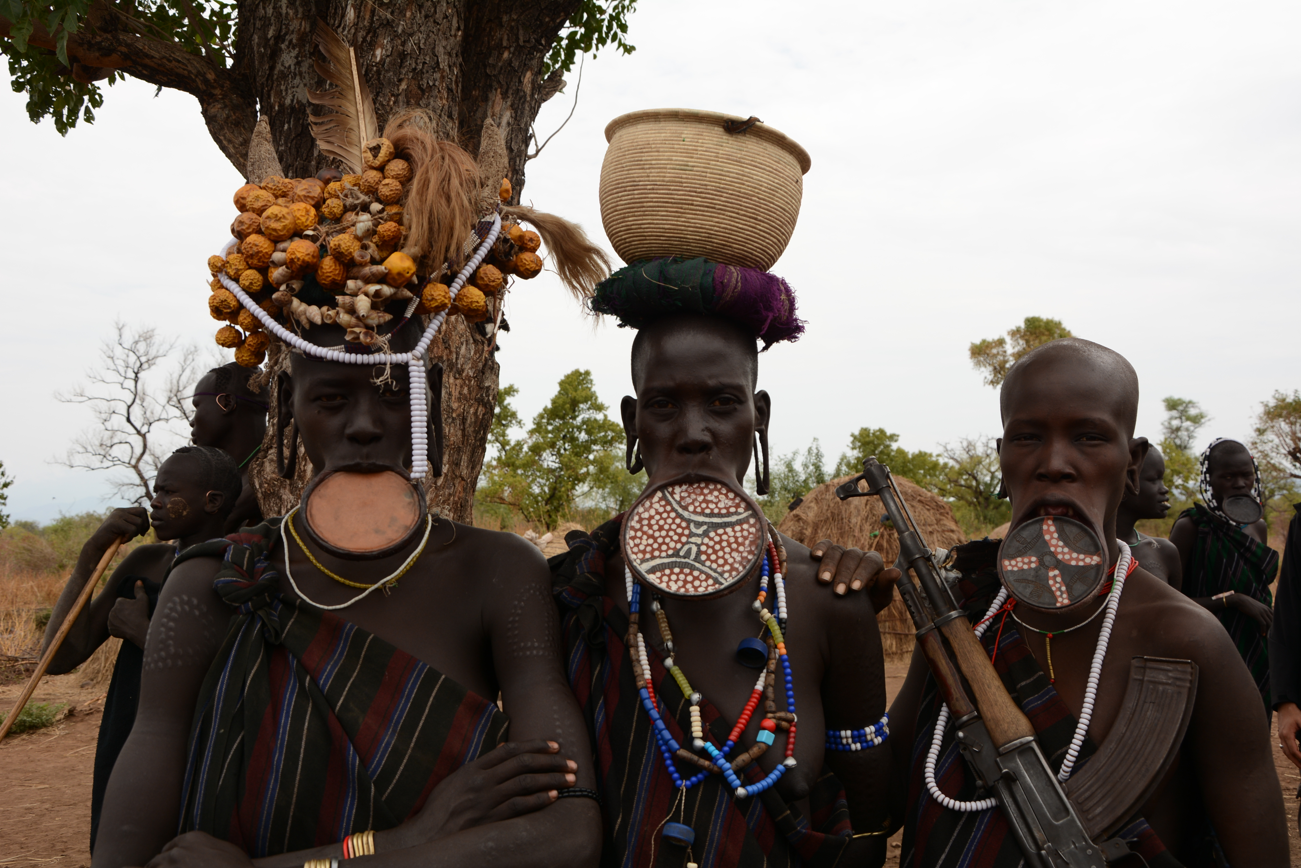 This is an image of Cultural Fashion or Adornment from Ethiopia